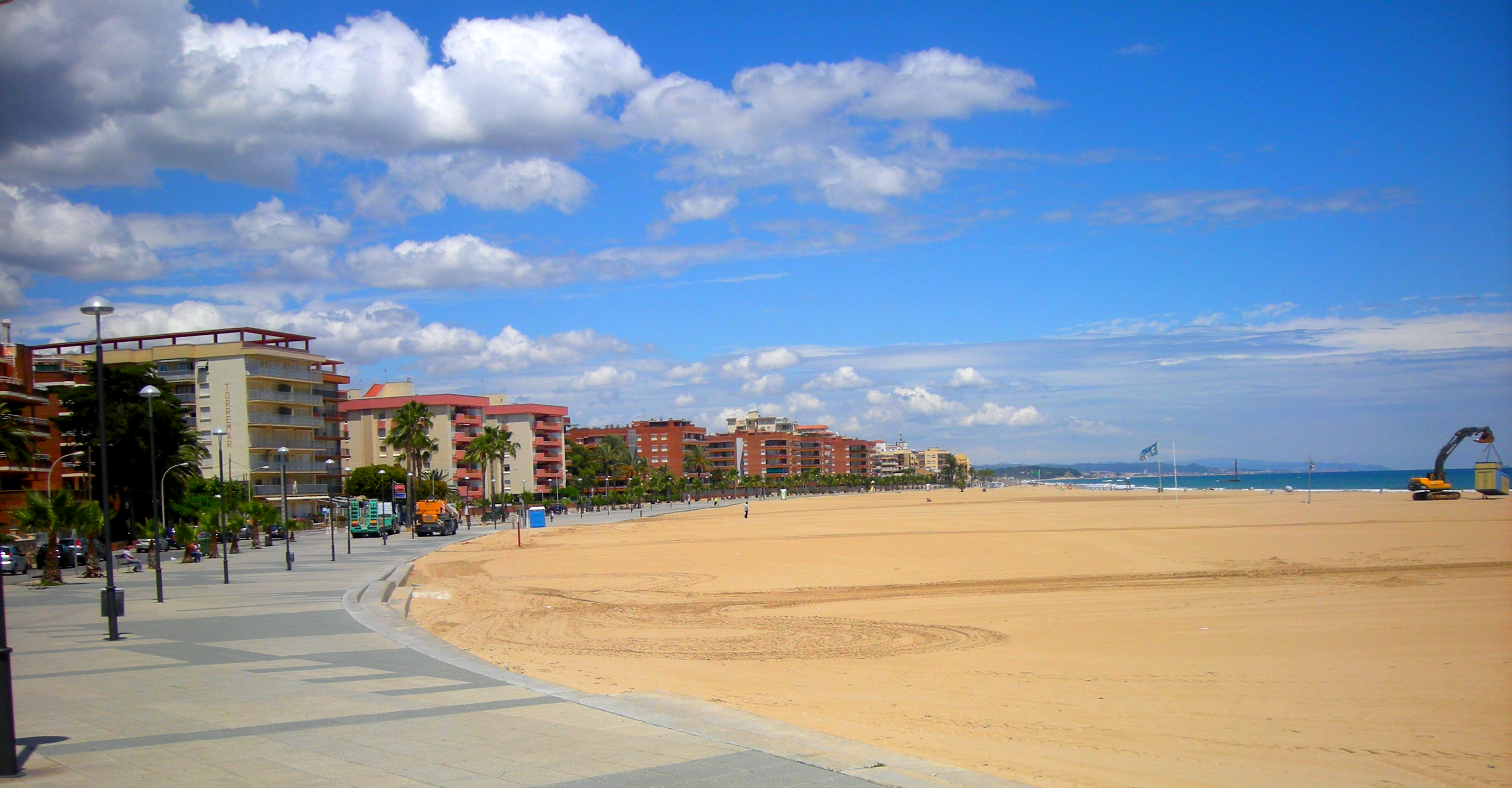 Panorama of the city of Torredembarra in Spain, beach.